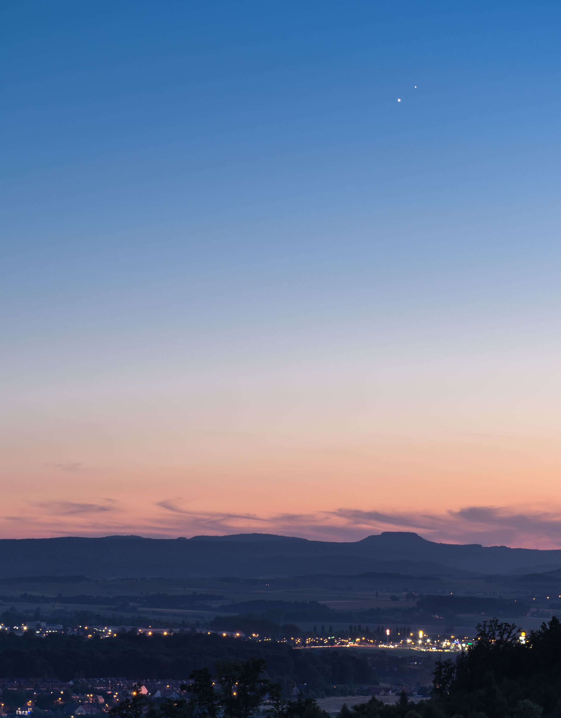 Conjunction of Jupiter and Venus, observed in Kłodzko